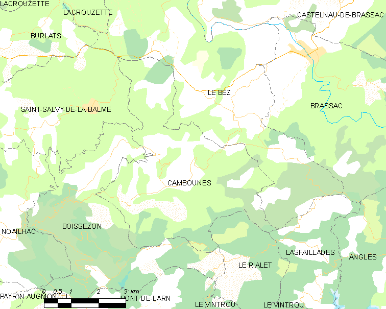 Map commune FR insee code 81053.png - Cambounès